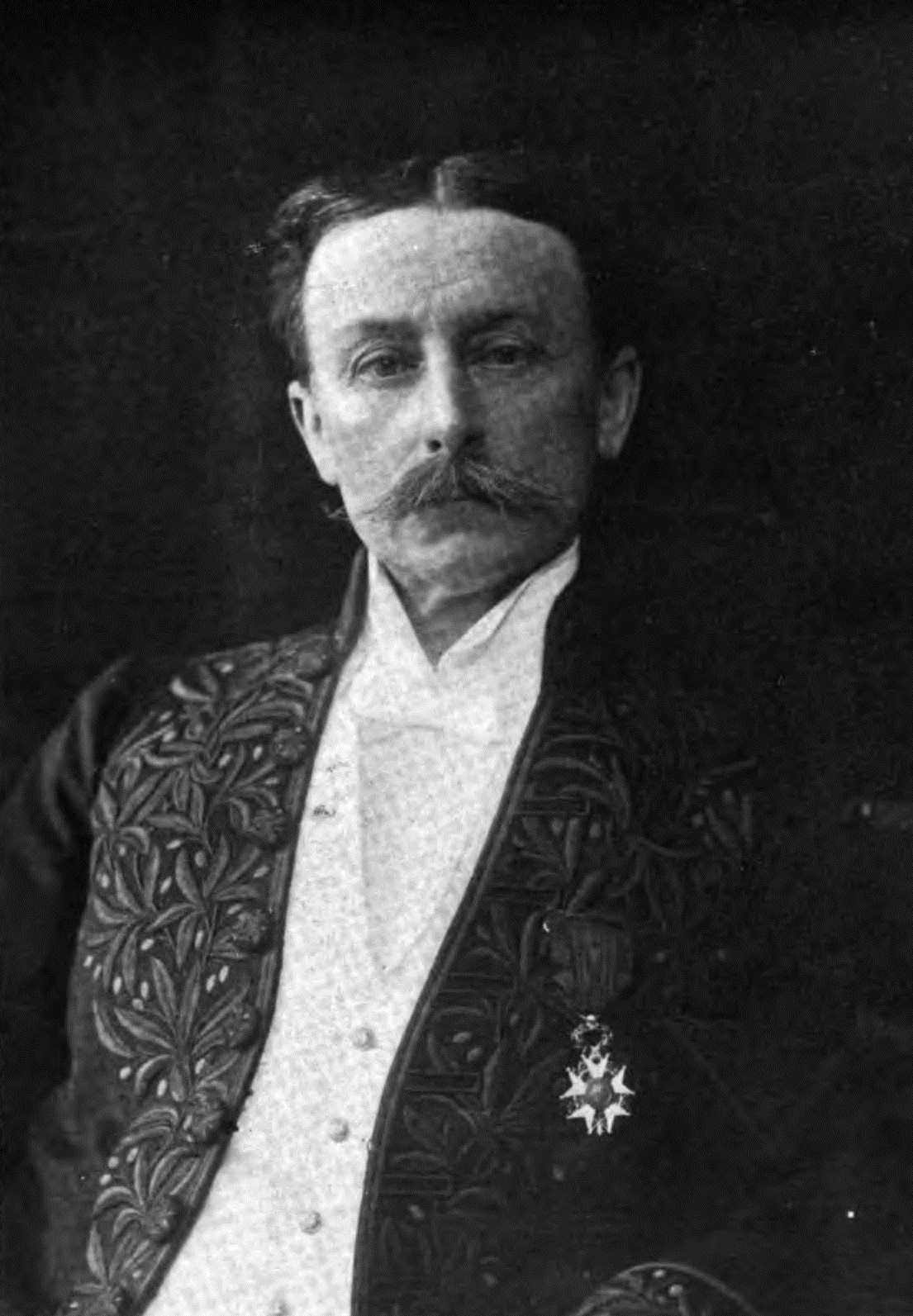 René Bazin